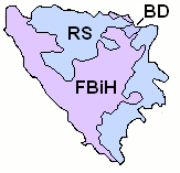 This map has been uploaded by Electionworld from to enable the Wikimedia Atlas of the World . Original uploader to was Asim Led, known as Asim Led at . Electionworld is not the creator of this map. Licensing information is below.